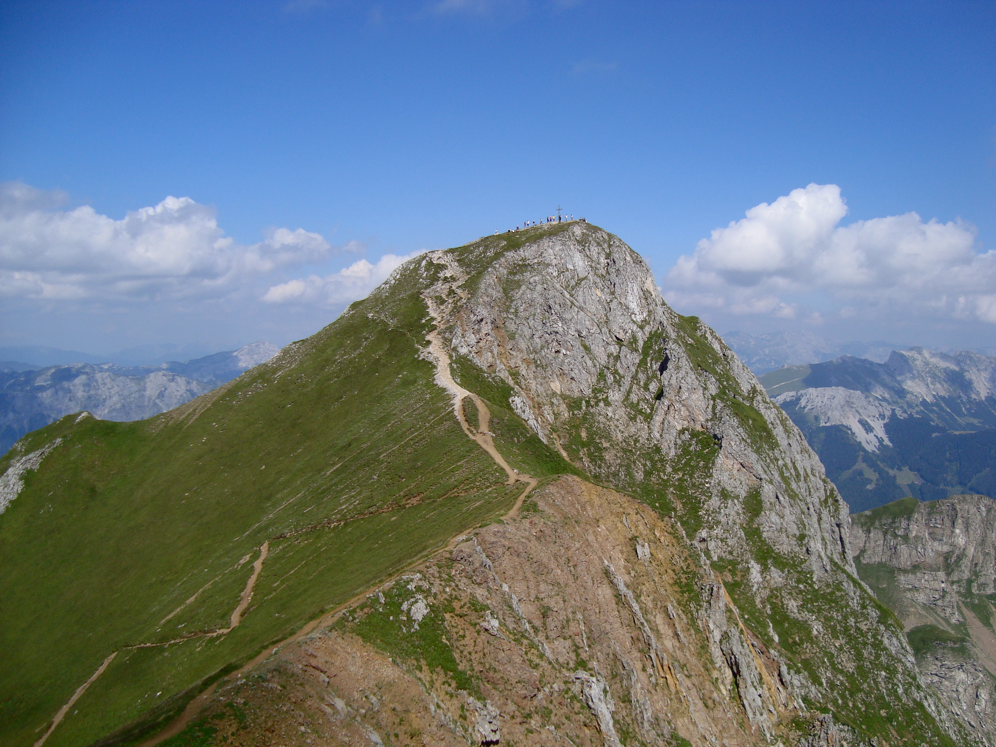 Eisenerzer Reichenstein seen from alpine hut Reichensteinerhütte, Styria, Austria